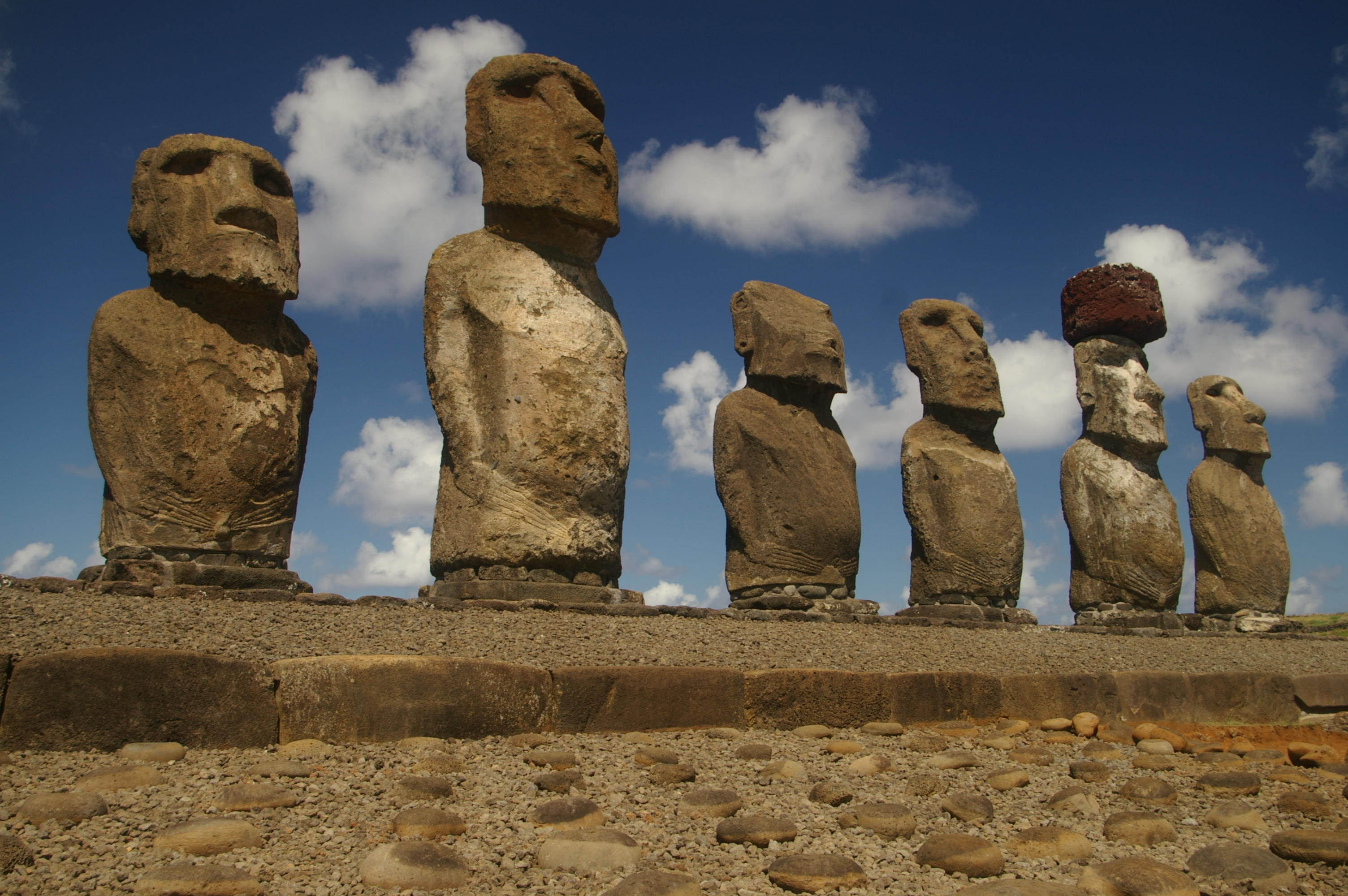 Six of the 15 Ahu Tongariki Moais